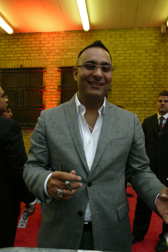 Canadian HomeGrown Comic Russel Peters posing for a photo outside of ONExONE gala event at Maple Leaf Gardens over the weekend of TIFF '08 Check out more great Photos and Videos at